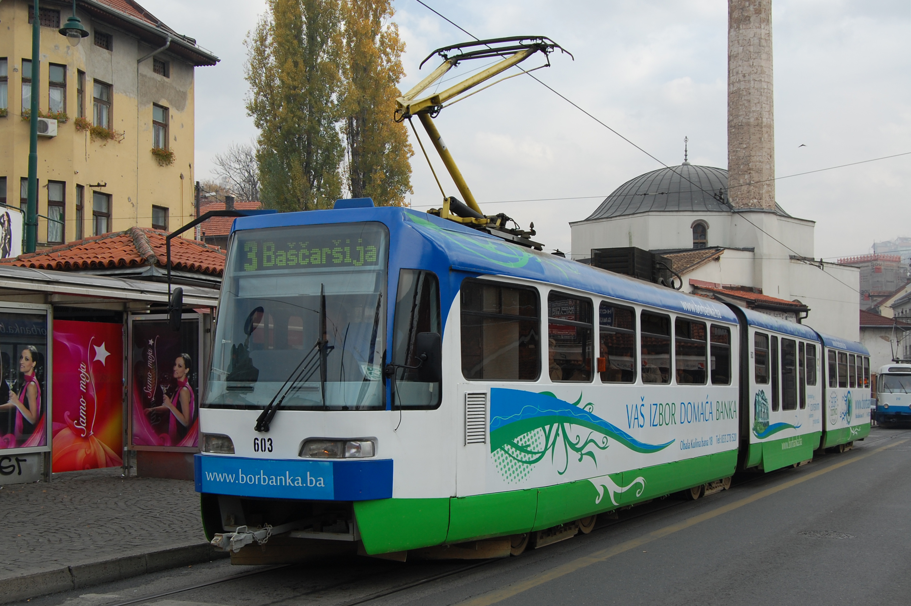 Tram #603 running westbound at Baščaršija, Line #3, November 8, 2011